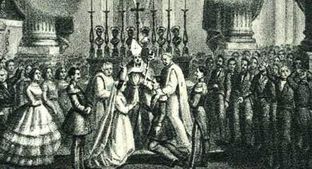 Wedding of Victor Emmanuel, duke of Savoy, and archduchess Maria Adelaide of Austria at the Palazzina di caccia of Stupinigi near Turin, 12 April 1842